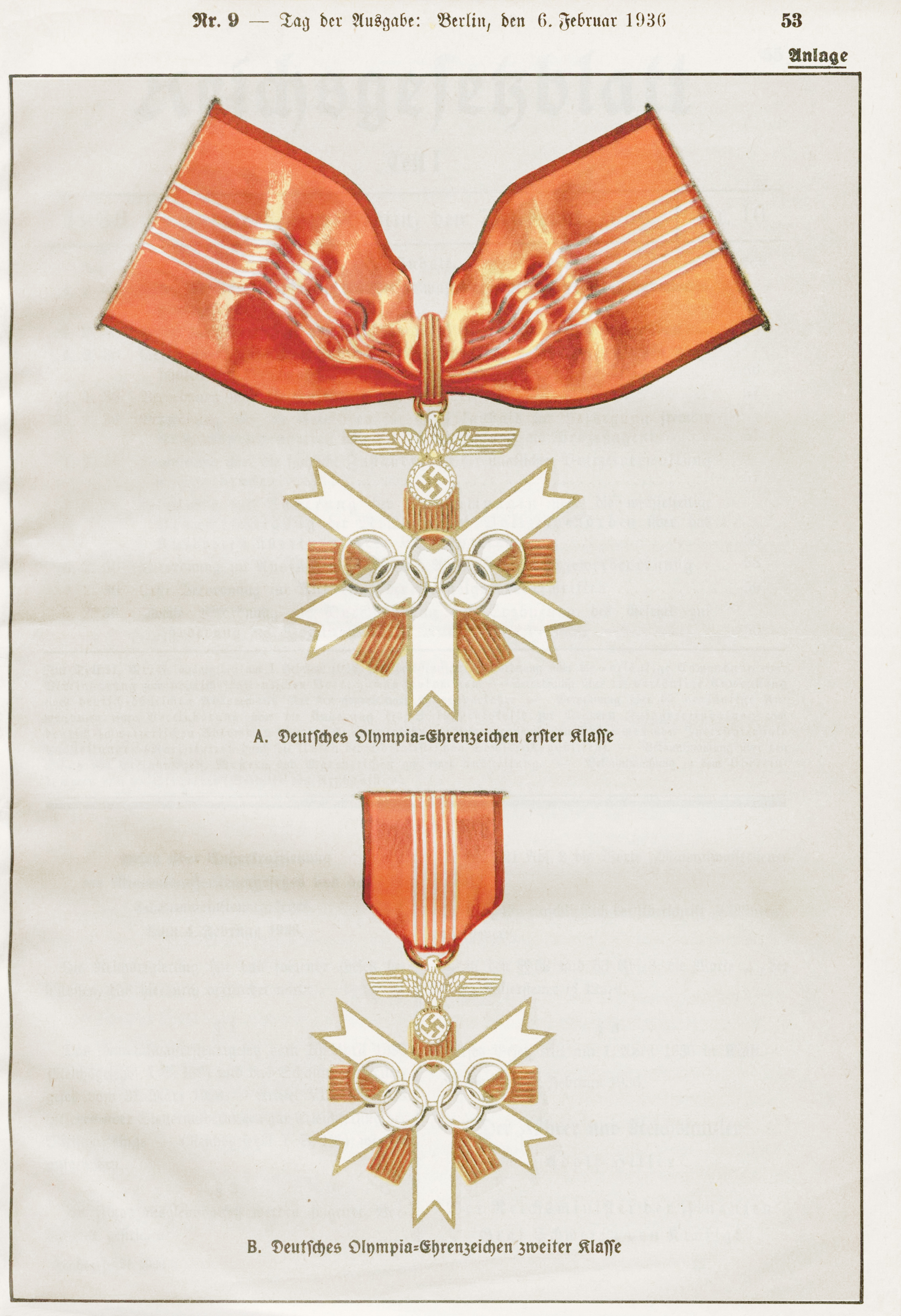 Scan from the Imperial Law Gazette of Germany, 1936, part 1